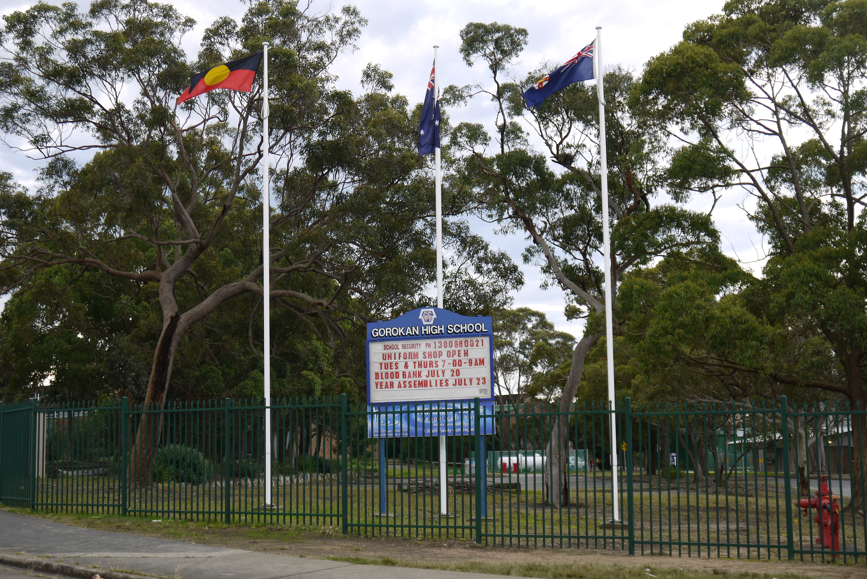 The sign at the main entry to the school taken from the street